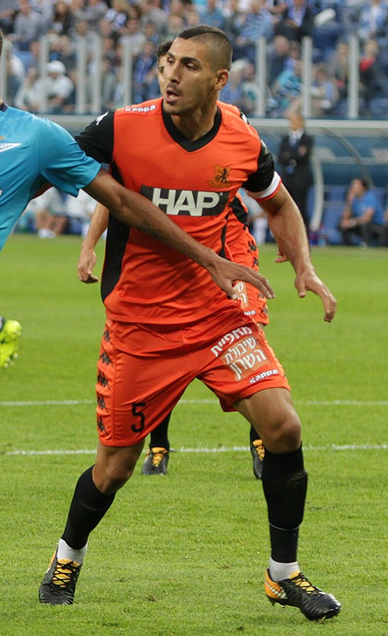 Ayid Habshi